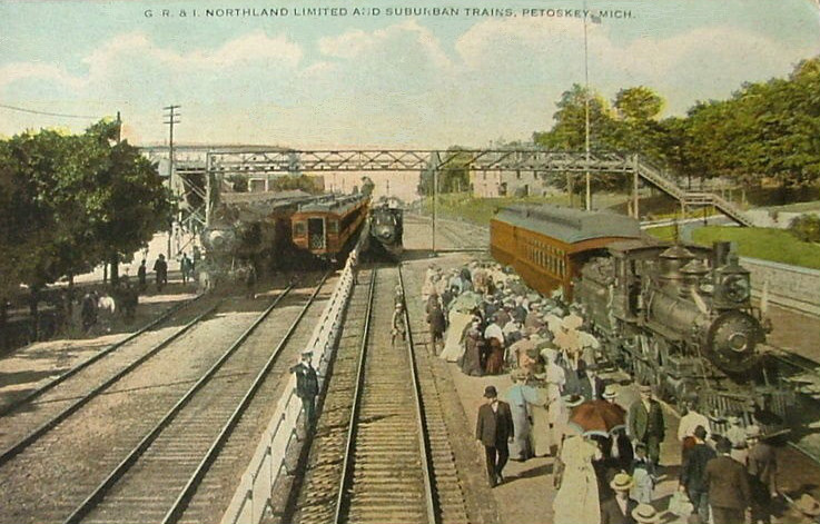 Postcard photo of the Grand Rapids and Indiana Railroad's Northland Limited and some local (suburban) trains at the Petoskey, Michigan station.